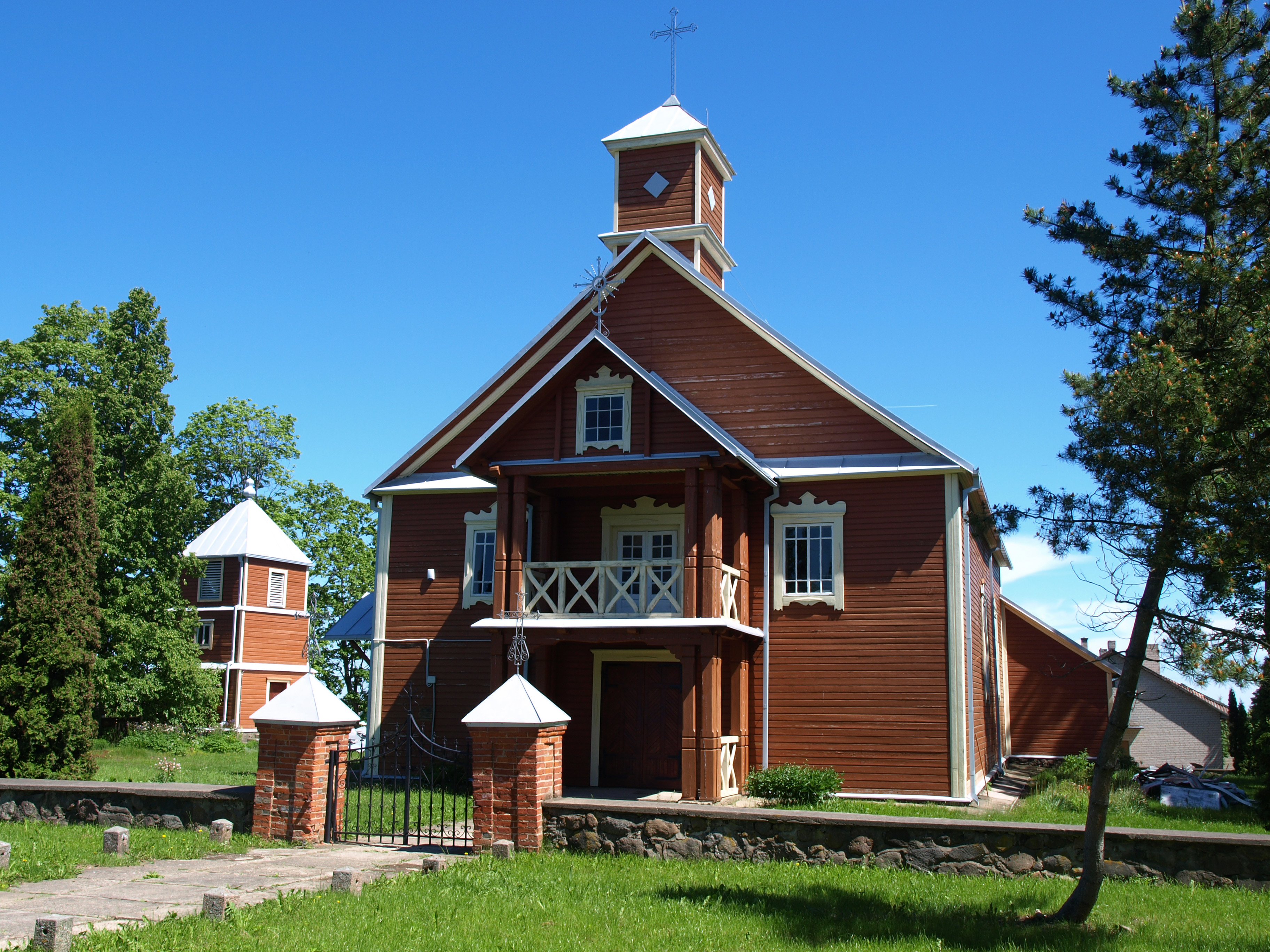 Smalvos church, Zarasai district, Lithuania